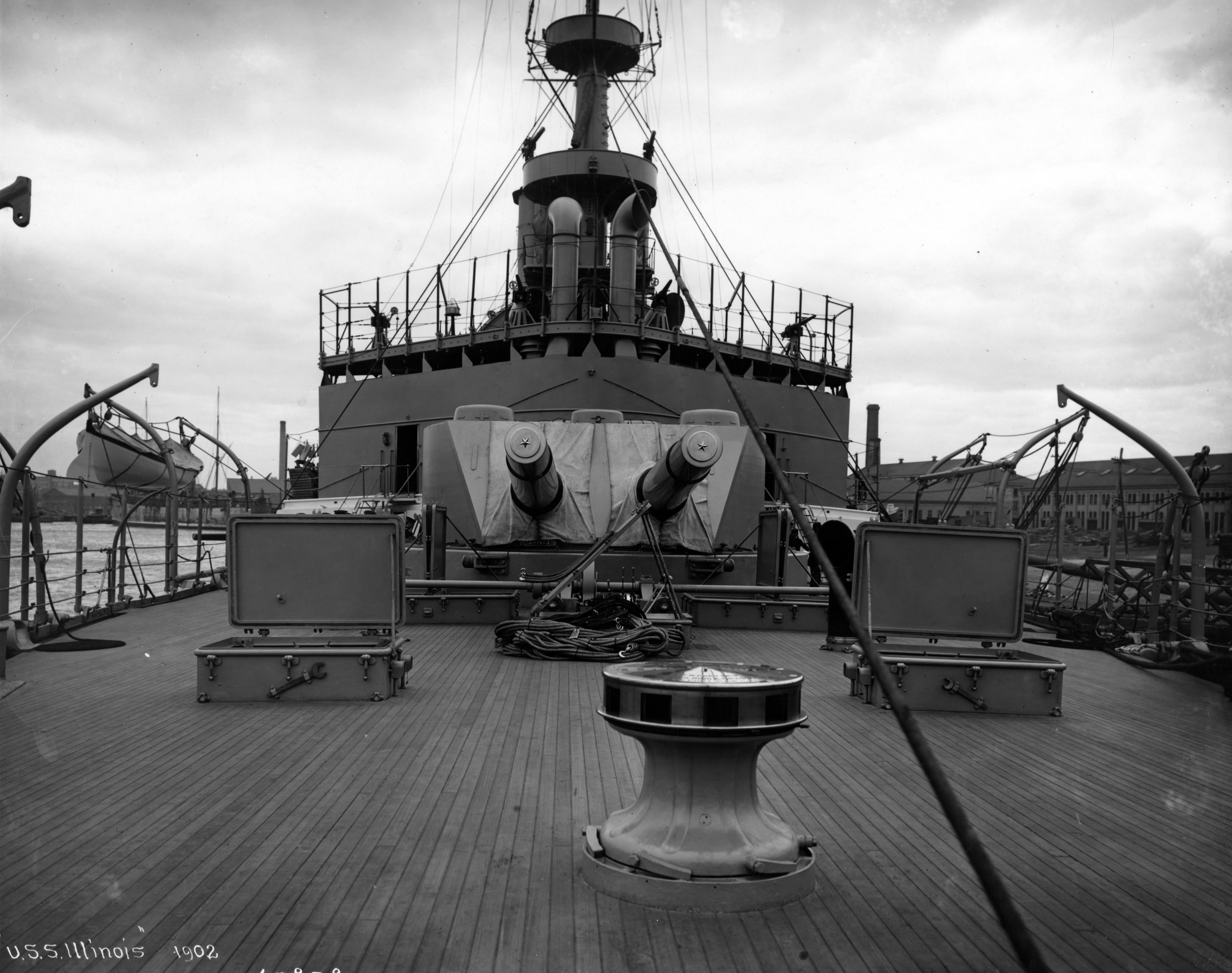 (Battleship # 7) View on deck, looking forward from the stern, 1902. Note the capstain and open hatches in the foreground, with the ship's after twin 13/35 gun turret beyond. Photograph from the Bureau of Ships Collection in the U.S. National Archives.